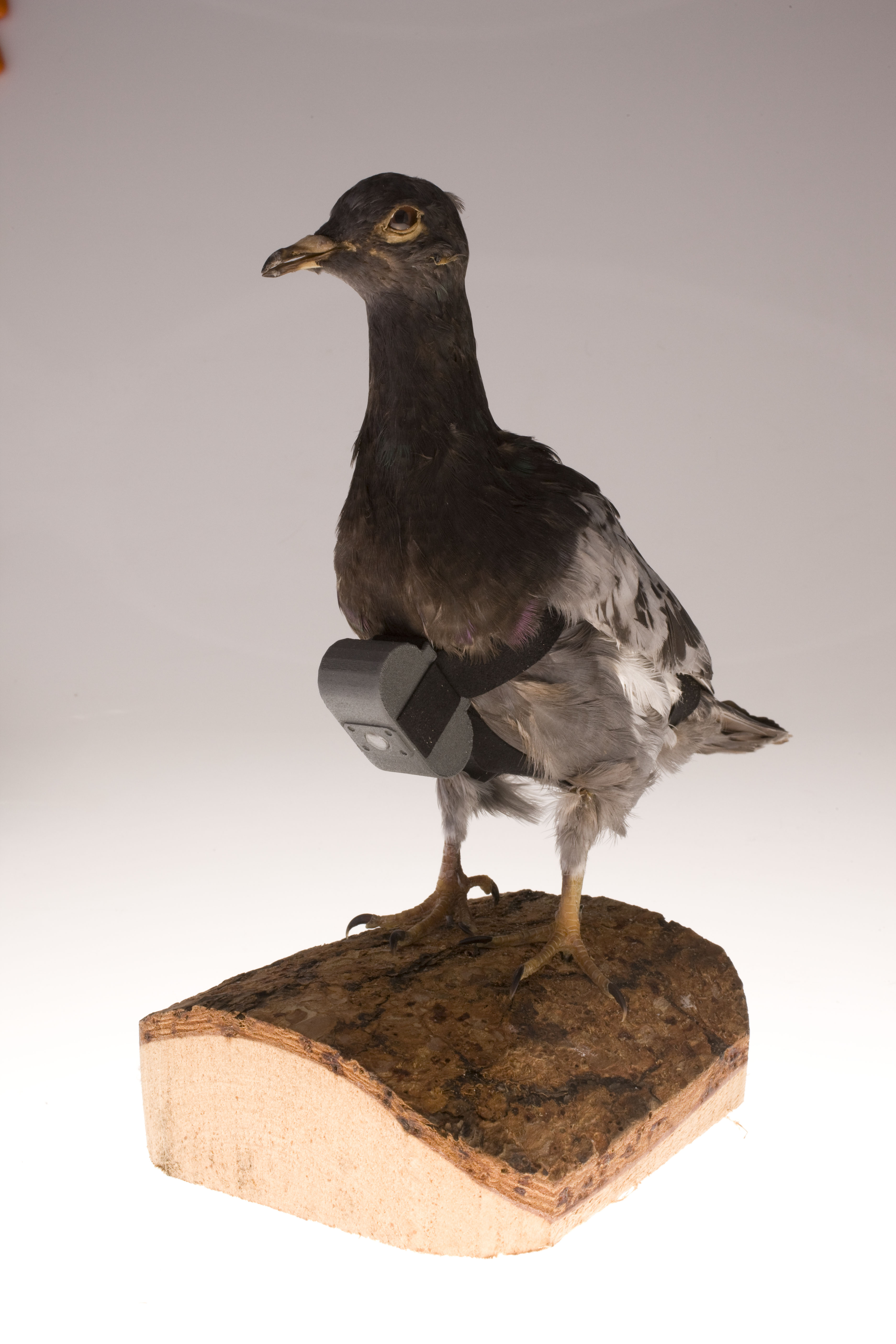 CIA’s Office of Research and Development developed a camera small and light enough to be carried by a pigeon. It would be released, and on its return home the bird would fly over a target. Being a common species, its role as an intelligence collection platform was concealed in the activities of thousands of other birds. Pigeon imagery was taken within hundreds of feet of the target so it was much more detailed than other collection platforms. For more information on CIA history and this artifact please visit